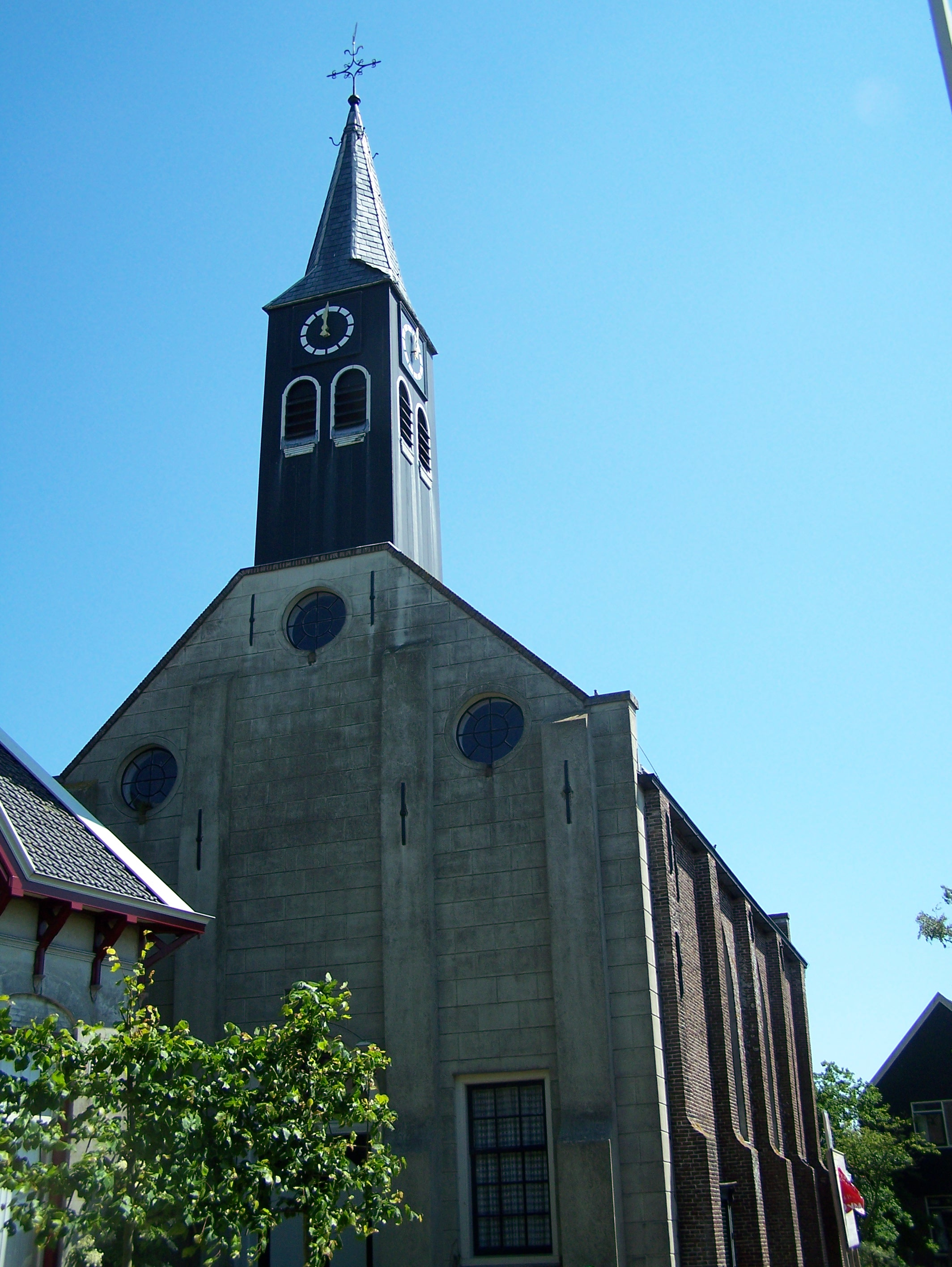 Former church (1840) at Oost-Graftdijk (Dutch reformed).